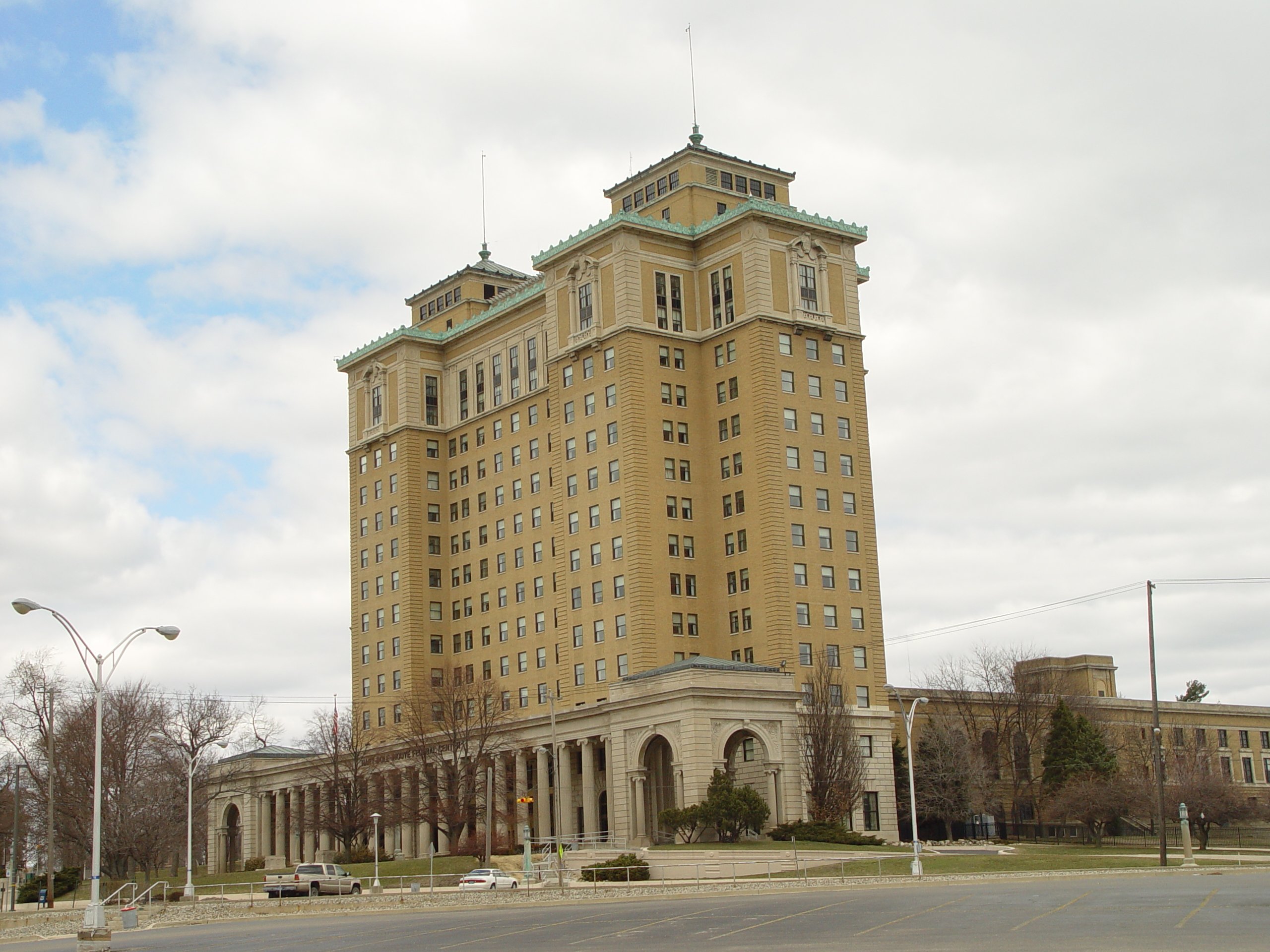 The Federal Center in Battle Creek has lived three different lives. The first was the original Sanitarium (World Health Reform Institute)where Dr. Kellogg invented cereal, then the Percy Jones Army Hospital, and now the Hart-Dole-Inouye Federal Center (after three former patients).